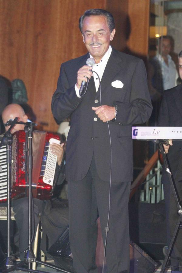 Melhem Barakat – Eid al-Fitr 2012